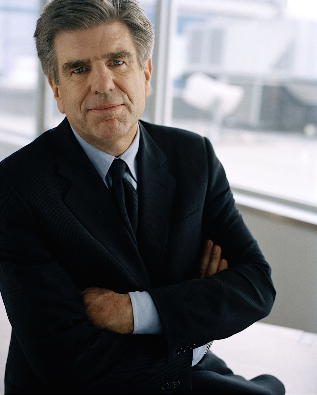 Tom Freston